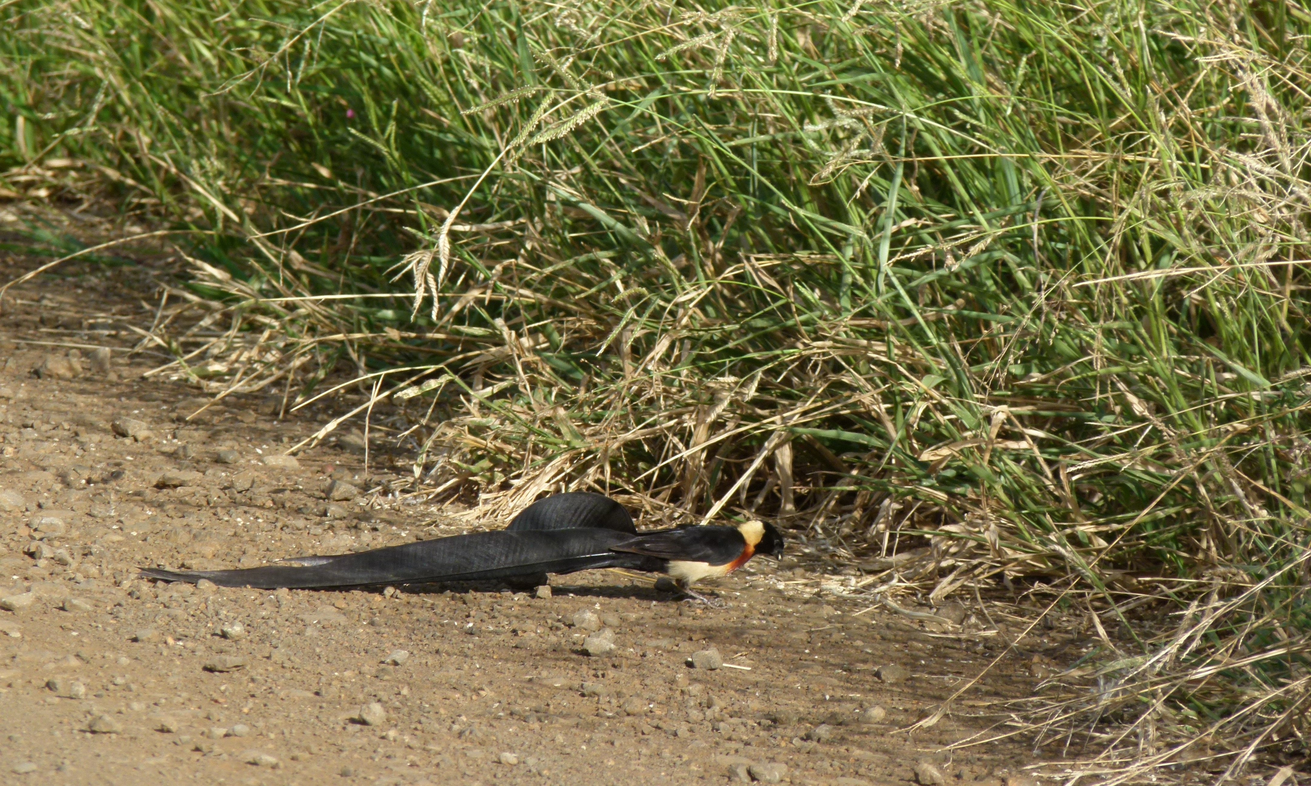 S128 North of Lower Sabie, Kruger NP, SOUTH AFRICA